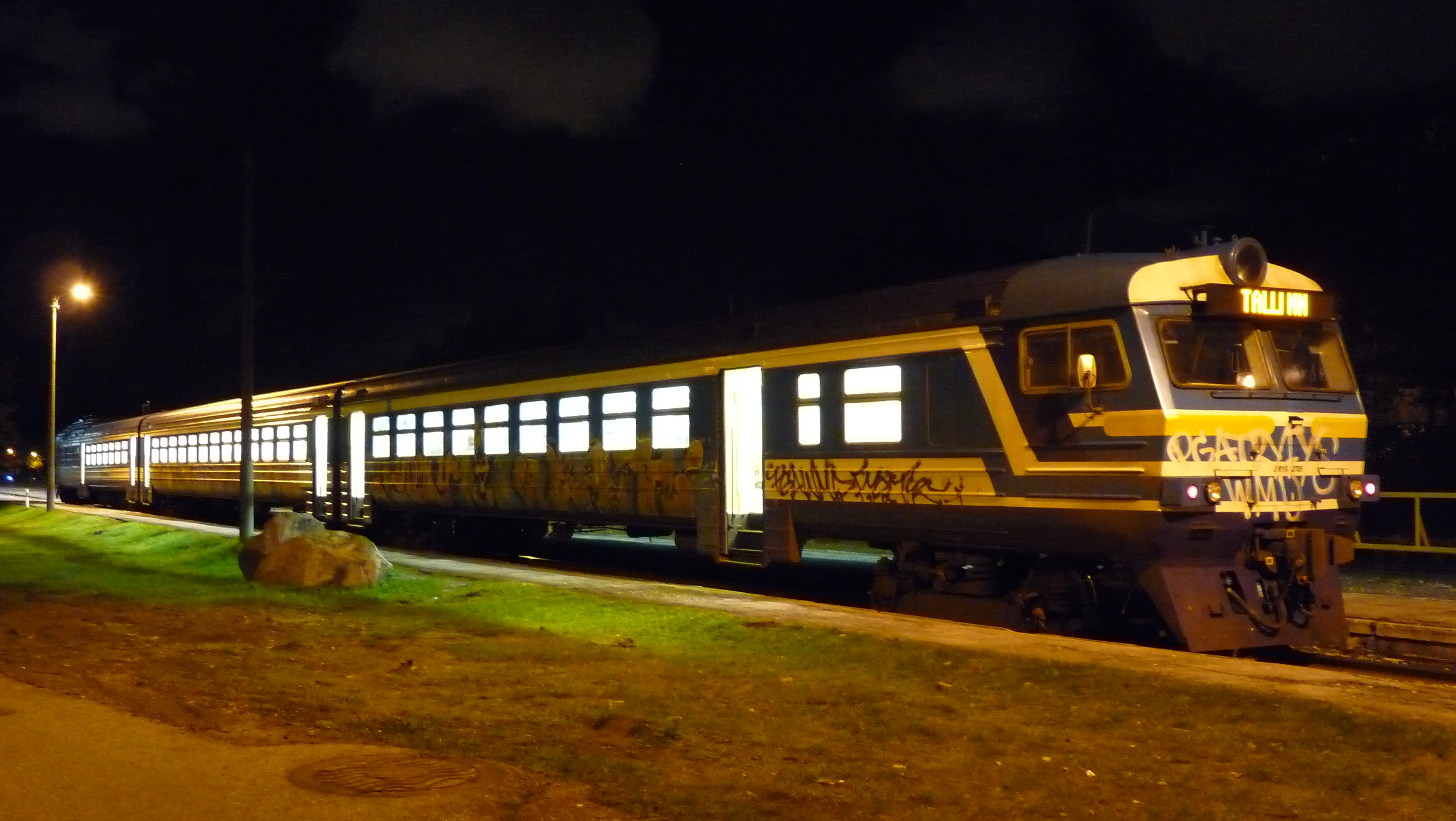 DR1 train at Liiva station in Tallinn, Estonia